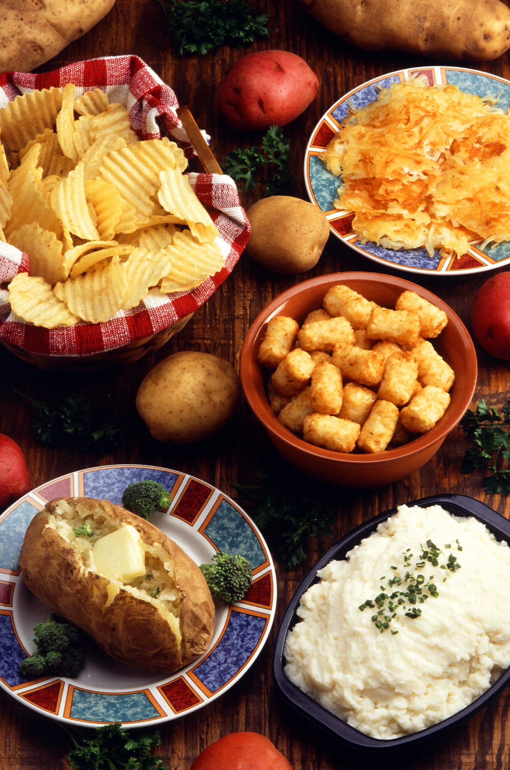 various potato dishes: potato chips, hashbrowns, tater tots, baked potato, and mashed potatoes